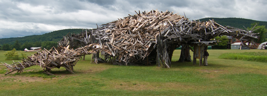 The Vermontasaurus is a creation of Brian Boland, the proprietor of the Post Mills Airport in Thetford, Vermont, USA. It is built from material that he recovered from a collapsed roof of his balloon-manufacturing facility. It collapsed in October, 2011 and was restored to this state in June 2012.